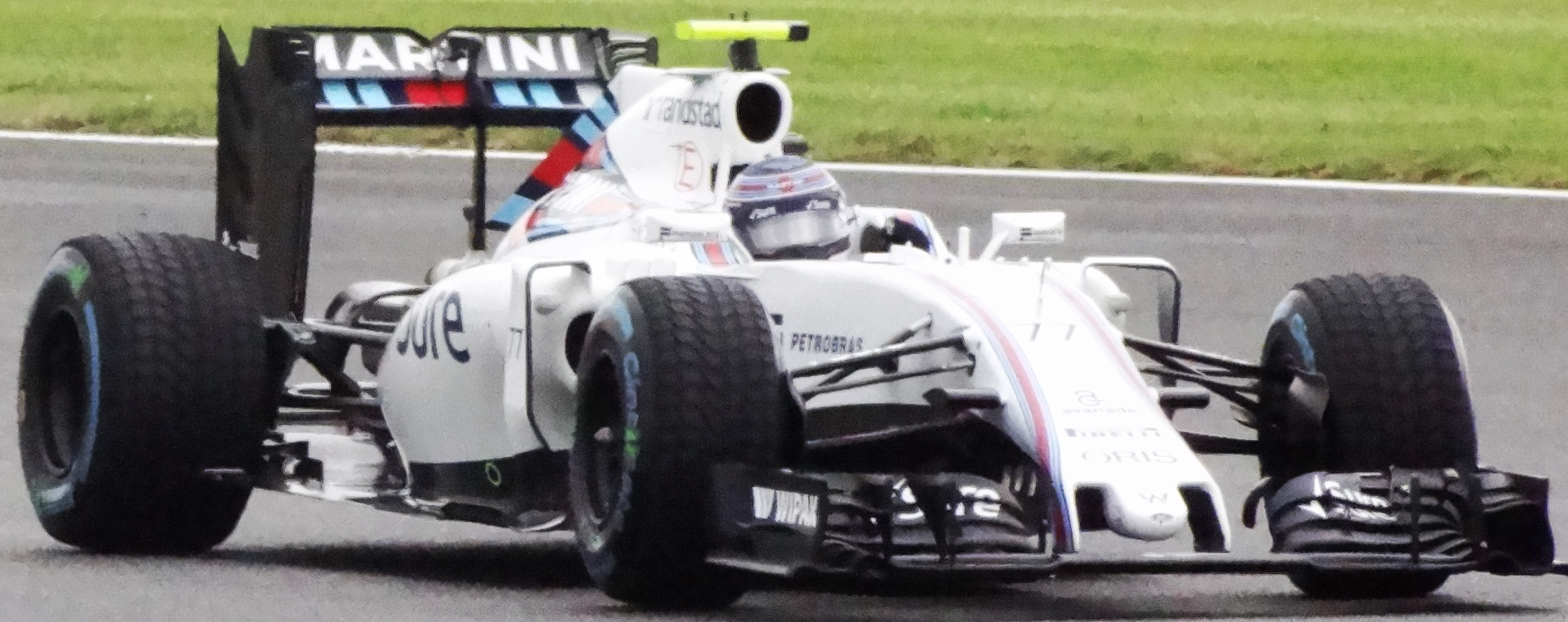 Valtteri Bottas in the Williams FW38, 2016 British Grand Prix (qualifying)